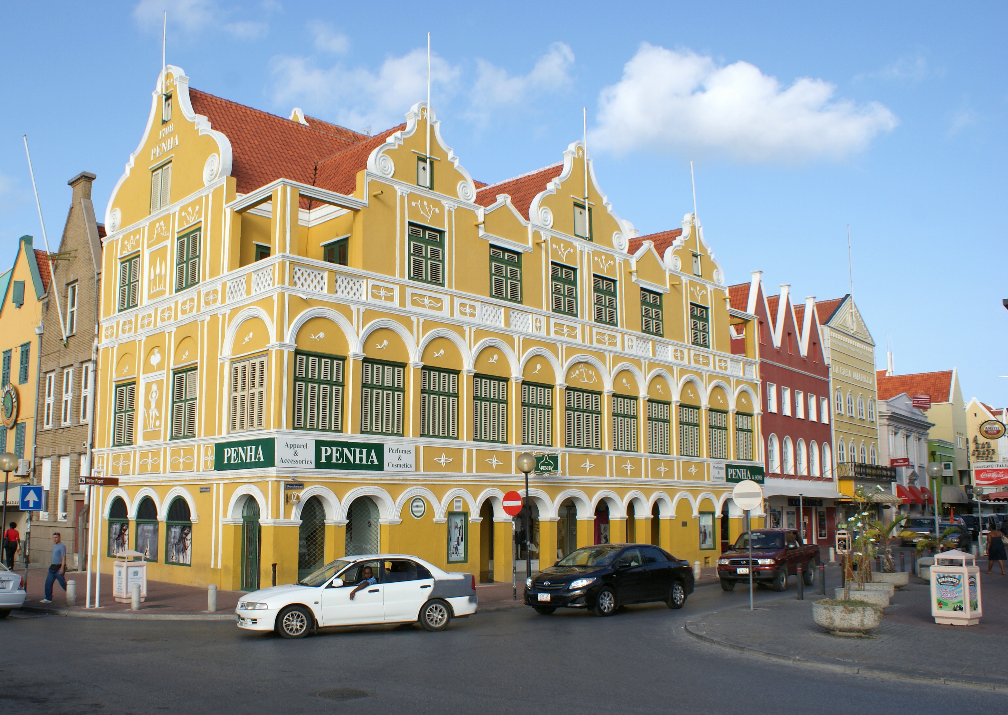 The Penha building in central Willemstad, Curacao